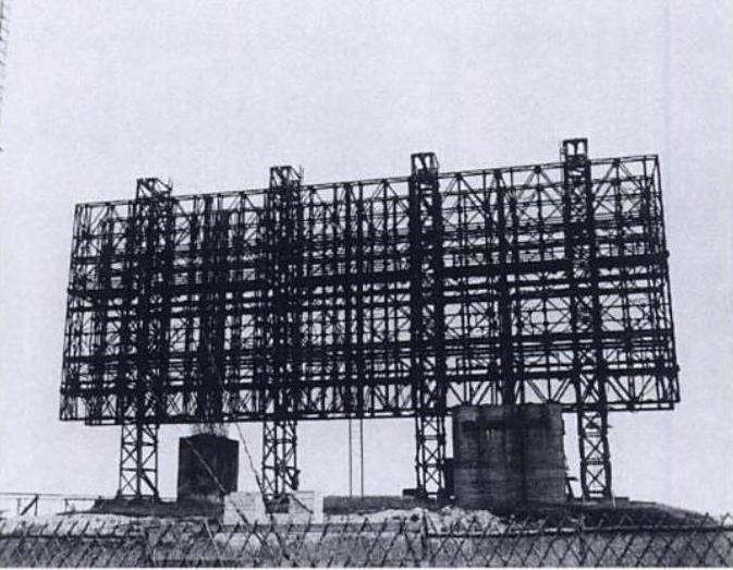 German Airforce long range search radar FuMG 41/42 "Mammut", first phased array radar in the world